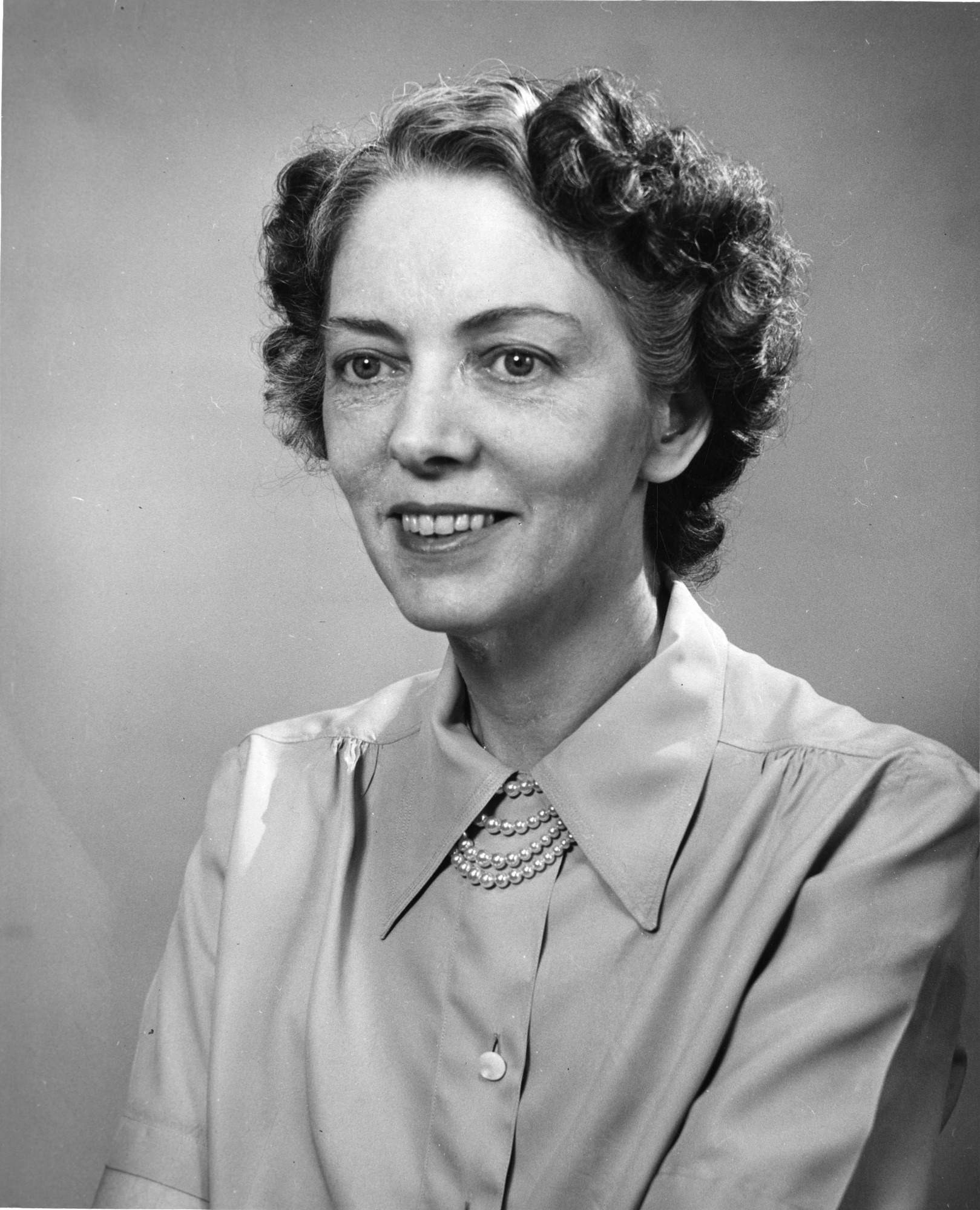 Subject: Stafford, Jane 1899-1991. Smith College American Medical Association Science Service National Institutes of Health (U.S.) National Association of Science Writers Women's National Press Club (U.S.) Type: Black-and-white photographs Topic: Chemistry Journalism, Scientific Local number: SIA Acc. 90-105 [SIA2009-3721] Summary: Although she had majored in chemistry at Smith College, Jane Stafford (1899-1991) spent most of her career communicating about medicine. She worked at the American Medical Association before joining Science Service as medical editor and writer in 1927, where she covered some of the most important discoveries and people in medical research until leaving to work at the U.S. National Institutes of Health in 1956. Well-respected by her fellow journalists, she served as president of the National Association of Science Writers in 1945 and the Women's National Press Club, 1949-1950 Cite as: Acc. 90-105 - Science Service, Records, 1920s-1970s, Smithsonian Institution Archives Persistent URL:Link to data base record Repository:Smithsonian Institution Archives View more collections from the Smithsonian Institution.